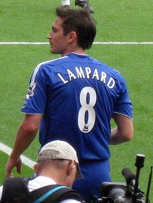 English football (soccer) player Frank Lampard